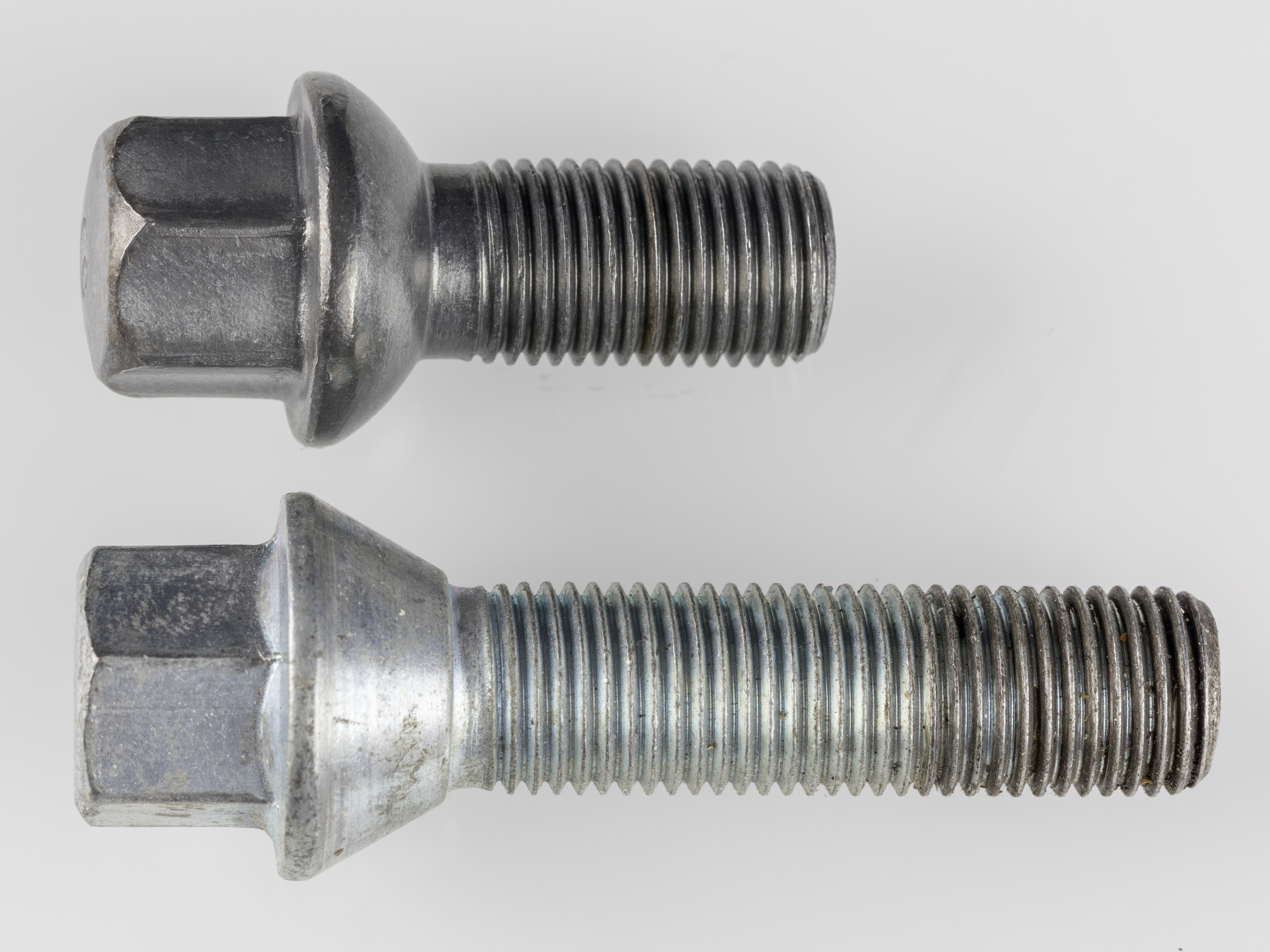 Spherical wheel bolt M14 x 1,5 x 27 mm and conical wheel bolt M14 x 1,5 x 50 mm